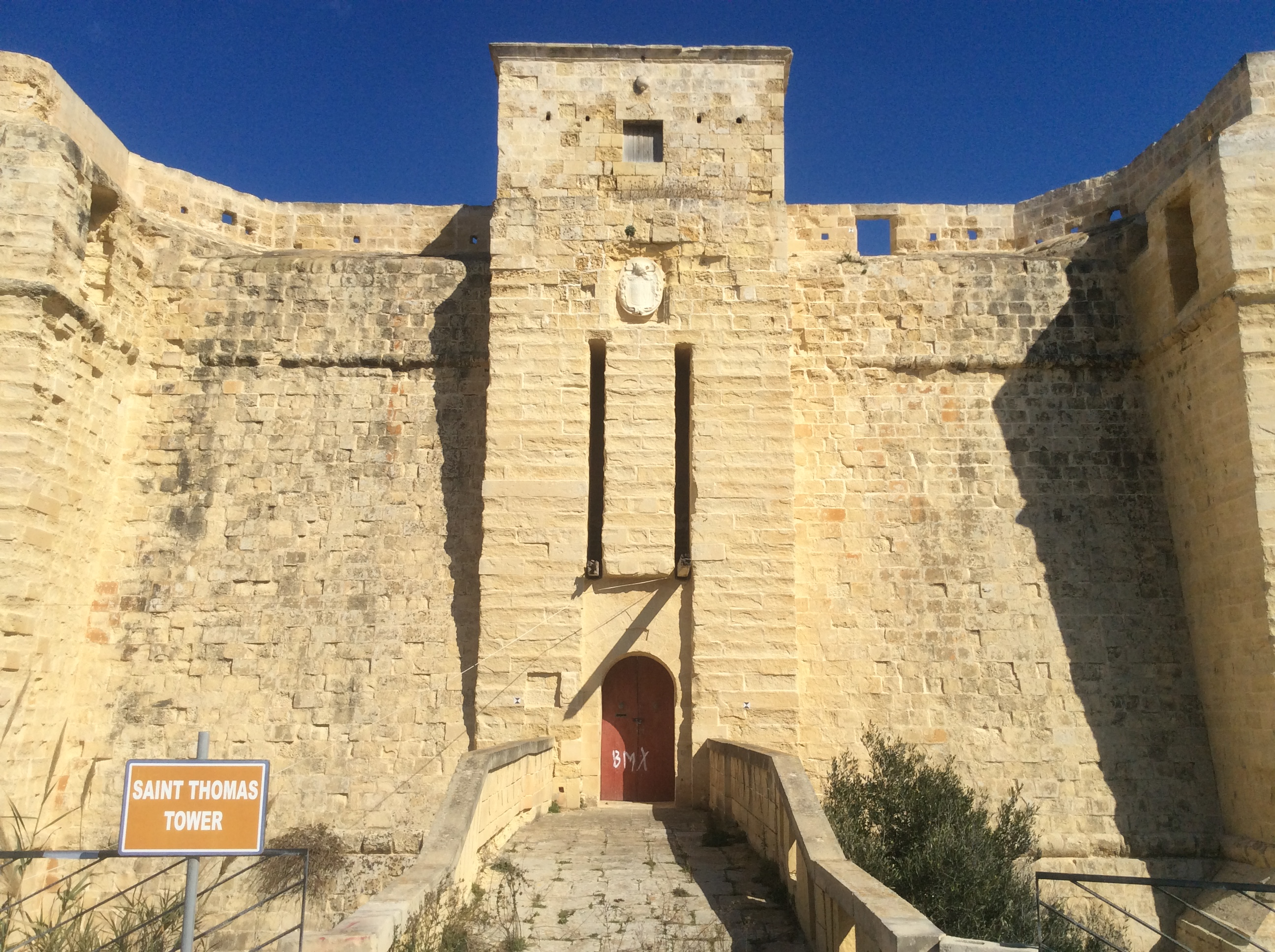 Front façade of St. Thomas Tower, Marsaskala, Malta